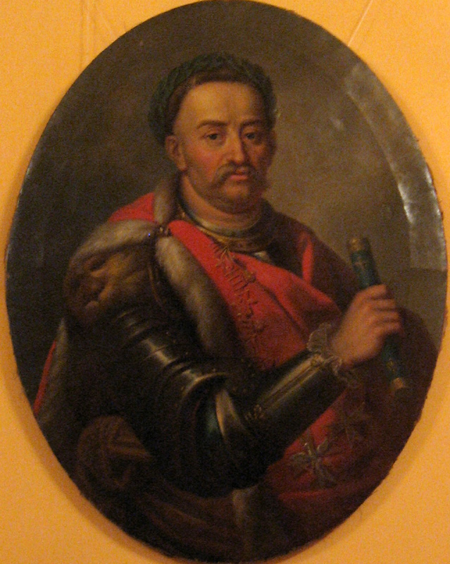 The portrait of Jan III Sobieski, king of Poland